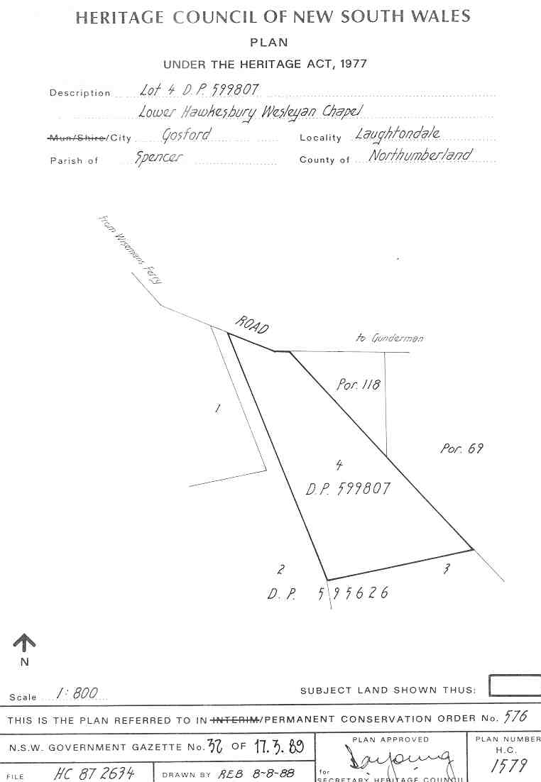 Lower Hawkesbury Wesleyan Chapel: PCO Plan Number 576